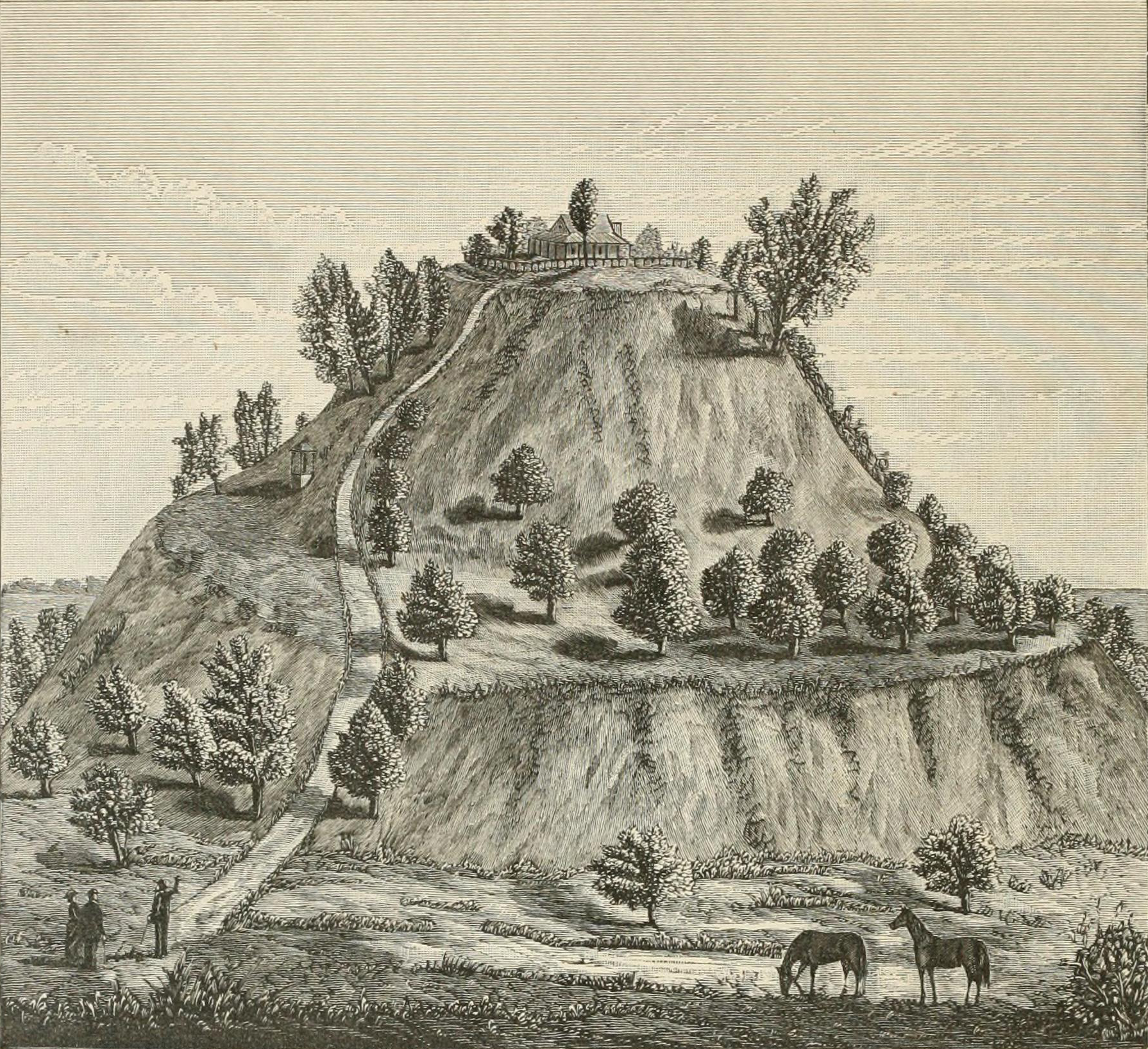 Monks Mound, Cahokia site, 1882 illustration